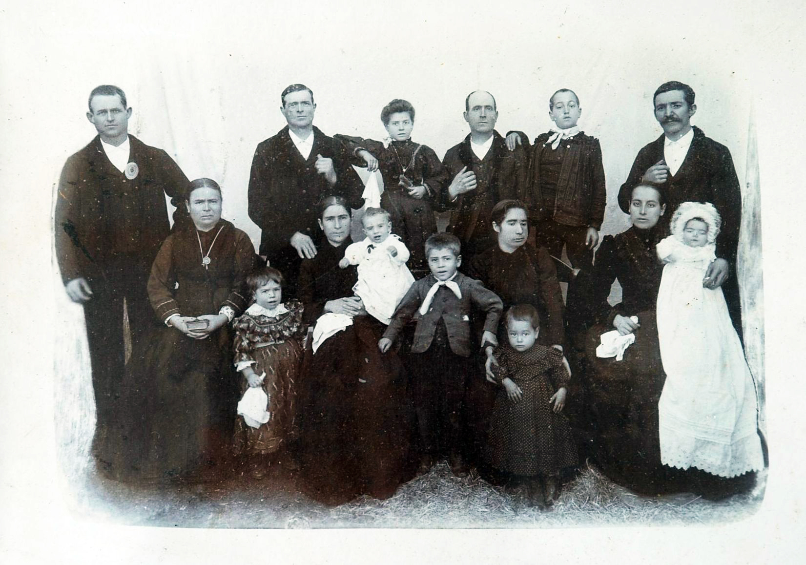 Lucas Espinosa family at the beginning of the 20th century in villabasta de Valdavia de Valdavia (Palencia, Castile and Leon). Lucas Espinosa is the child of the top row with a white scarf around his neck, in second position starting on the right. It is supported on the shoulder of his father Nicomedes Espinosa. Under his stepmother Sabiniana and hir sister Florence Espinosa.